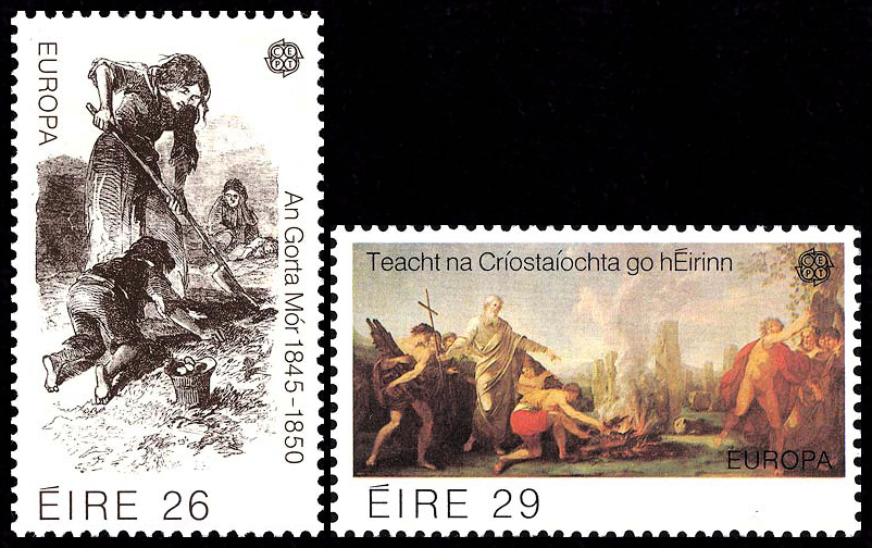 Postage stamps of Ireland, 1982. Issue under the EUROPA-CEPT program. Unknown author, mid-19th century. Engraving from "The Illustrated London News". (postage stamp of 26 pence). St. Patrick raises the Easter fire. Fresco. By Vincenzo Valdre, 1740-1814 (postage stamp of 29 pence).